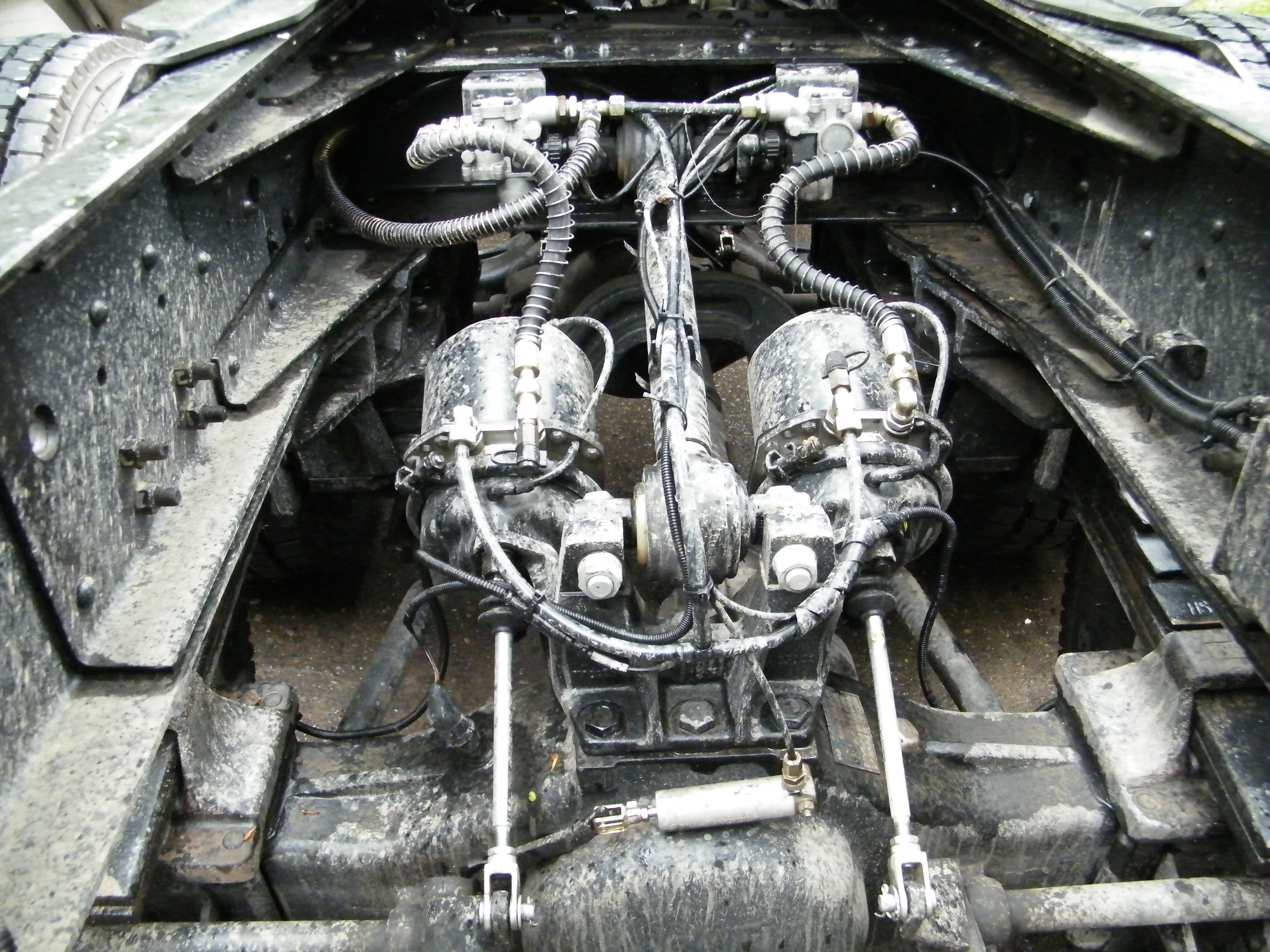 Пневматический тормоз заднего моста (Shacman)